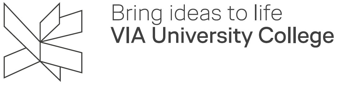 New logo since 2013